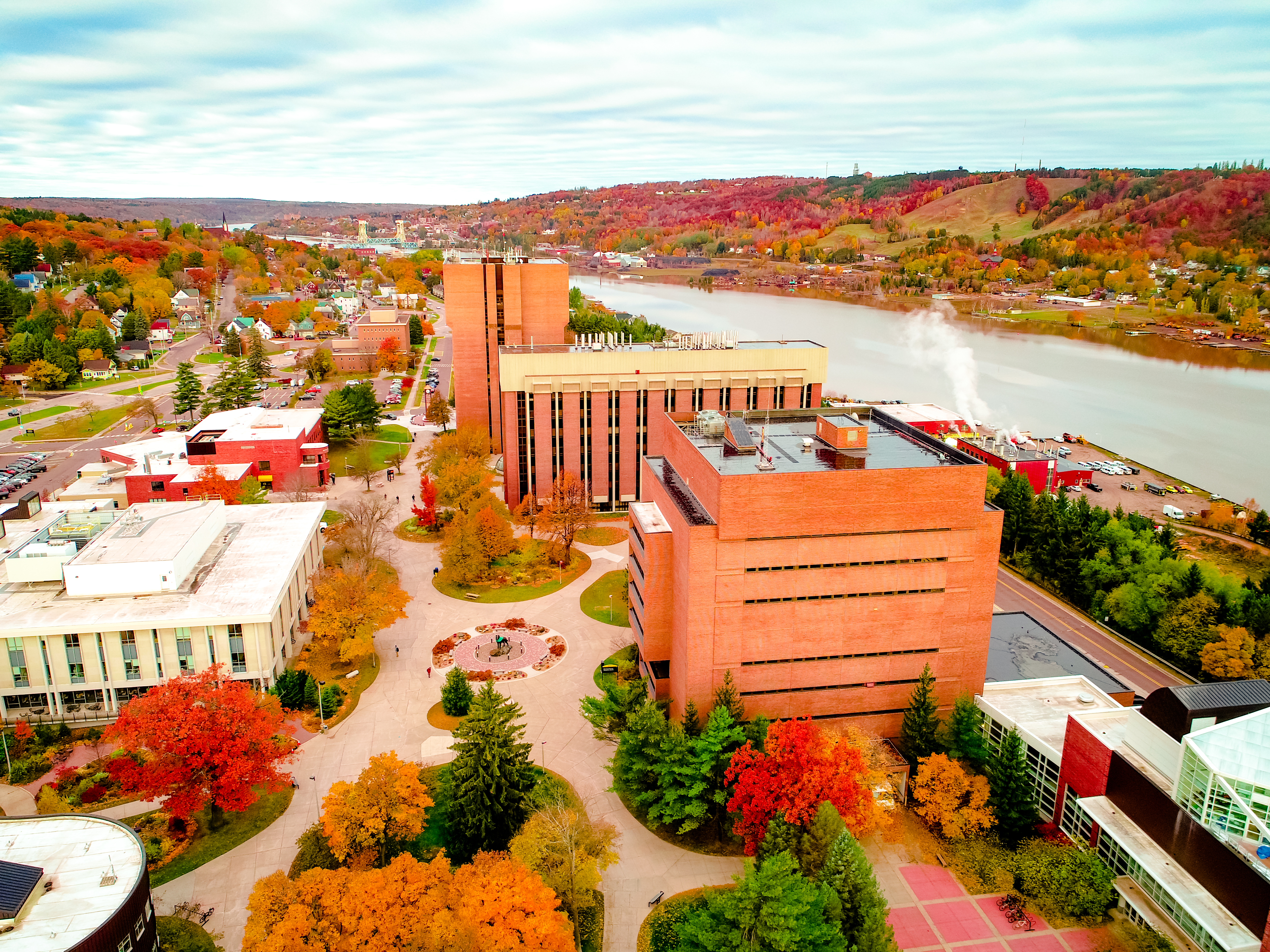 The main campus for Michigan Technological University is located in Houghton, MI—north of Highway US 41 and south of the Portage Canal.